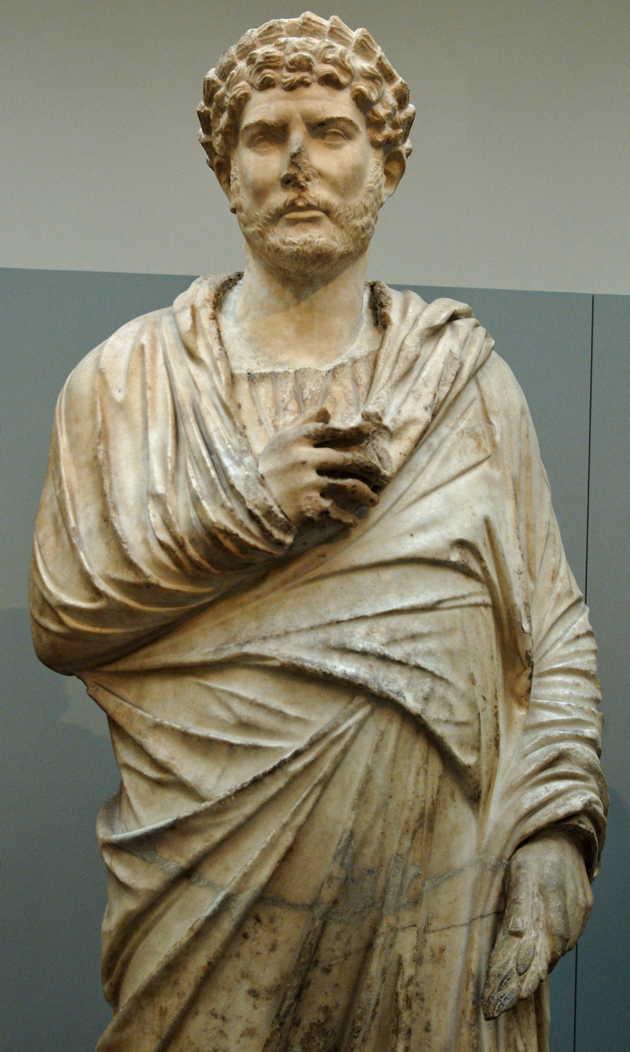 Roman emperor Hadrian in Greek dress offers a sprig of laurel to Apollo. From the temple of Apollo at Cyrene. According to Tracey Sweek, the head does not belong to the body.